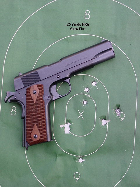 Colt 1911 World War I Re-issue. One hand slow fire from 25 yards.